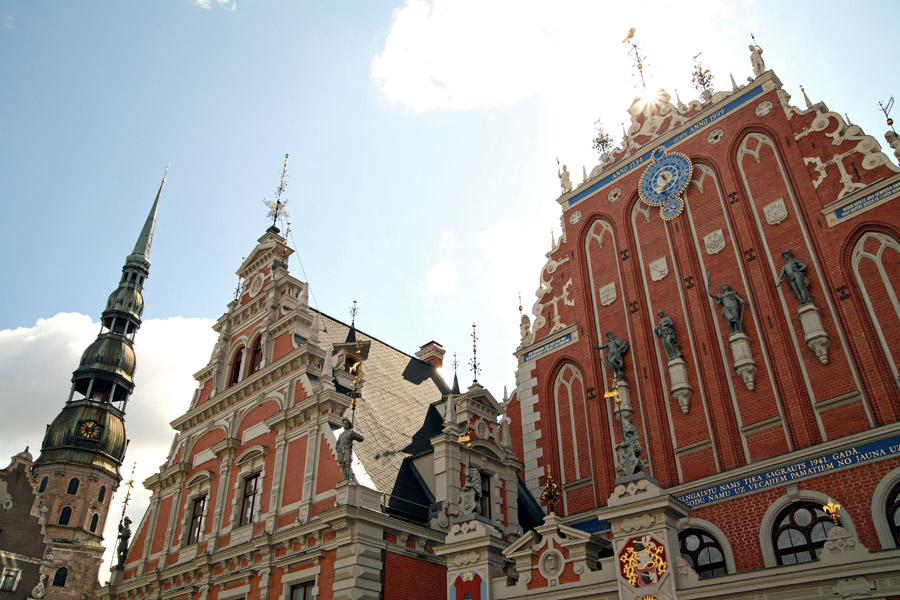 Melngalvju Nams and Sv.Pētera Baznīca, Riga, Riga (city).